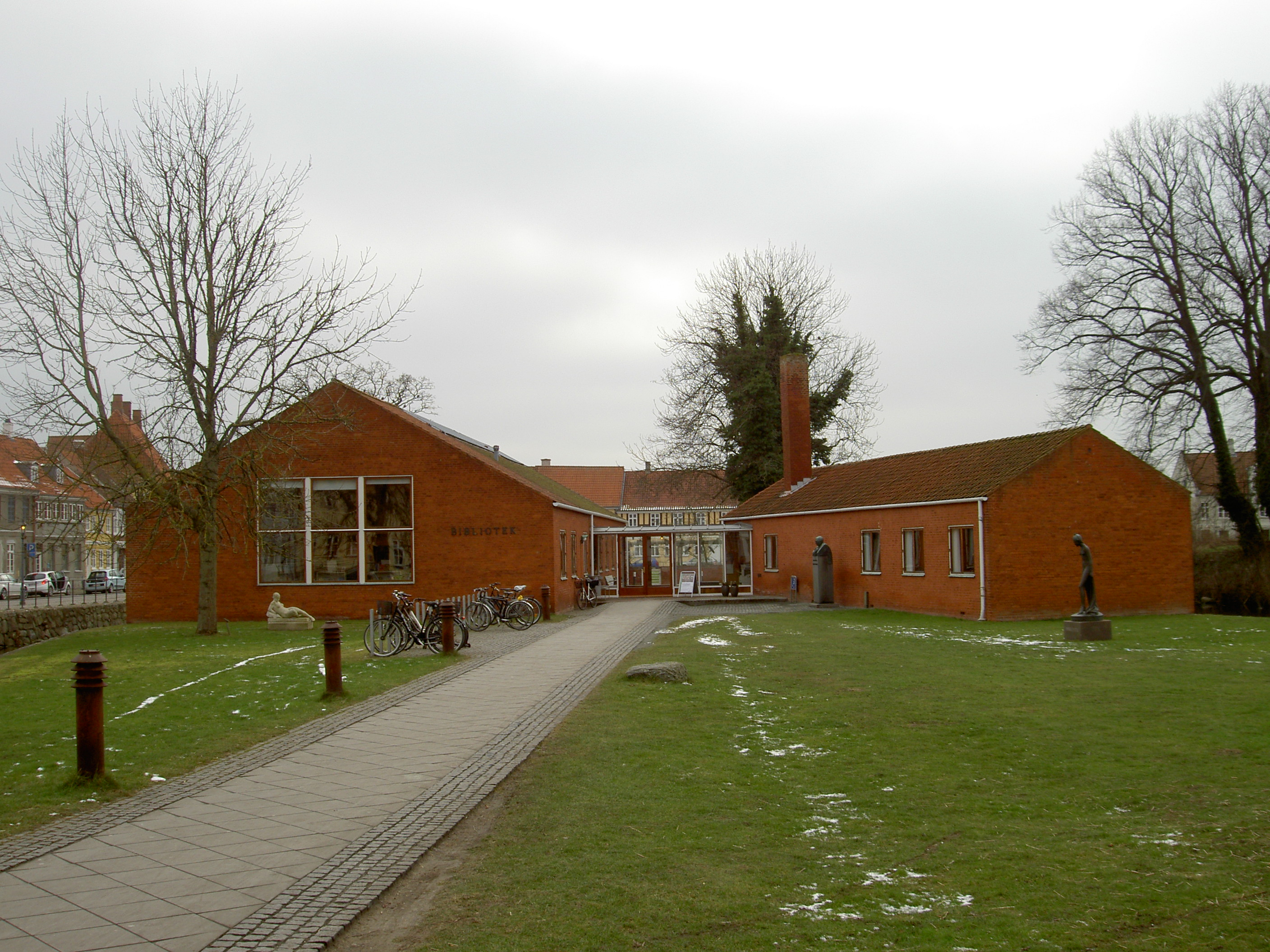 Nyborg library